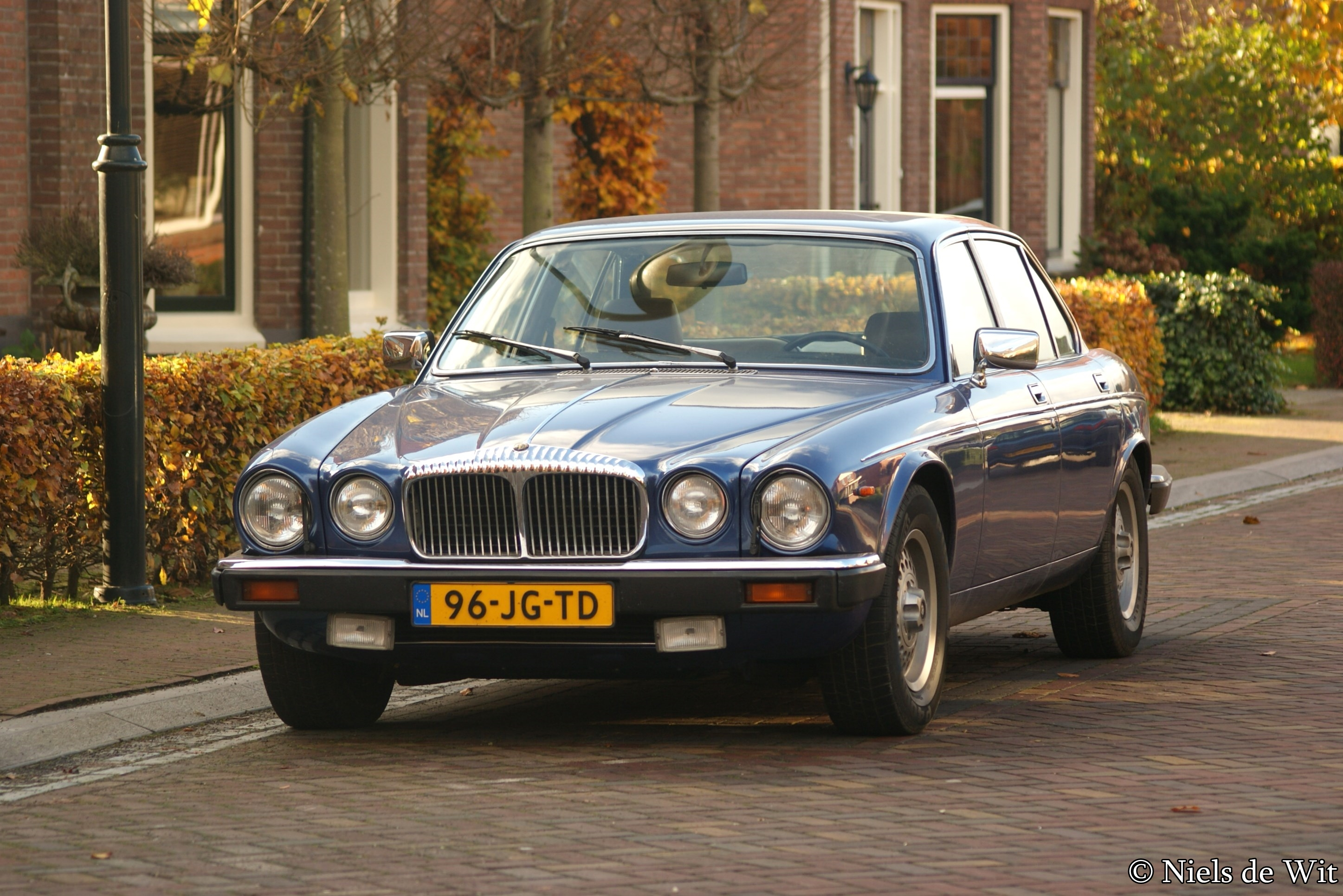 96-JG-TD